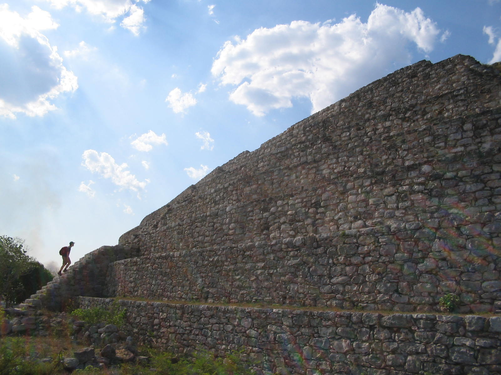 Great pyramid to the Maya Sun God, Kinich Kak Mo (Izamal, Yucatán, Mexico)